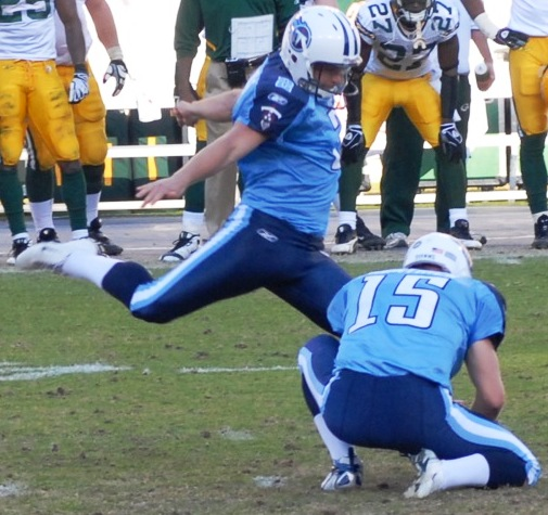 Tennessee Titans kicker Rob Bironas in action in the November 2, 2008 game against the Green Bay Packers at LP Field.